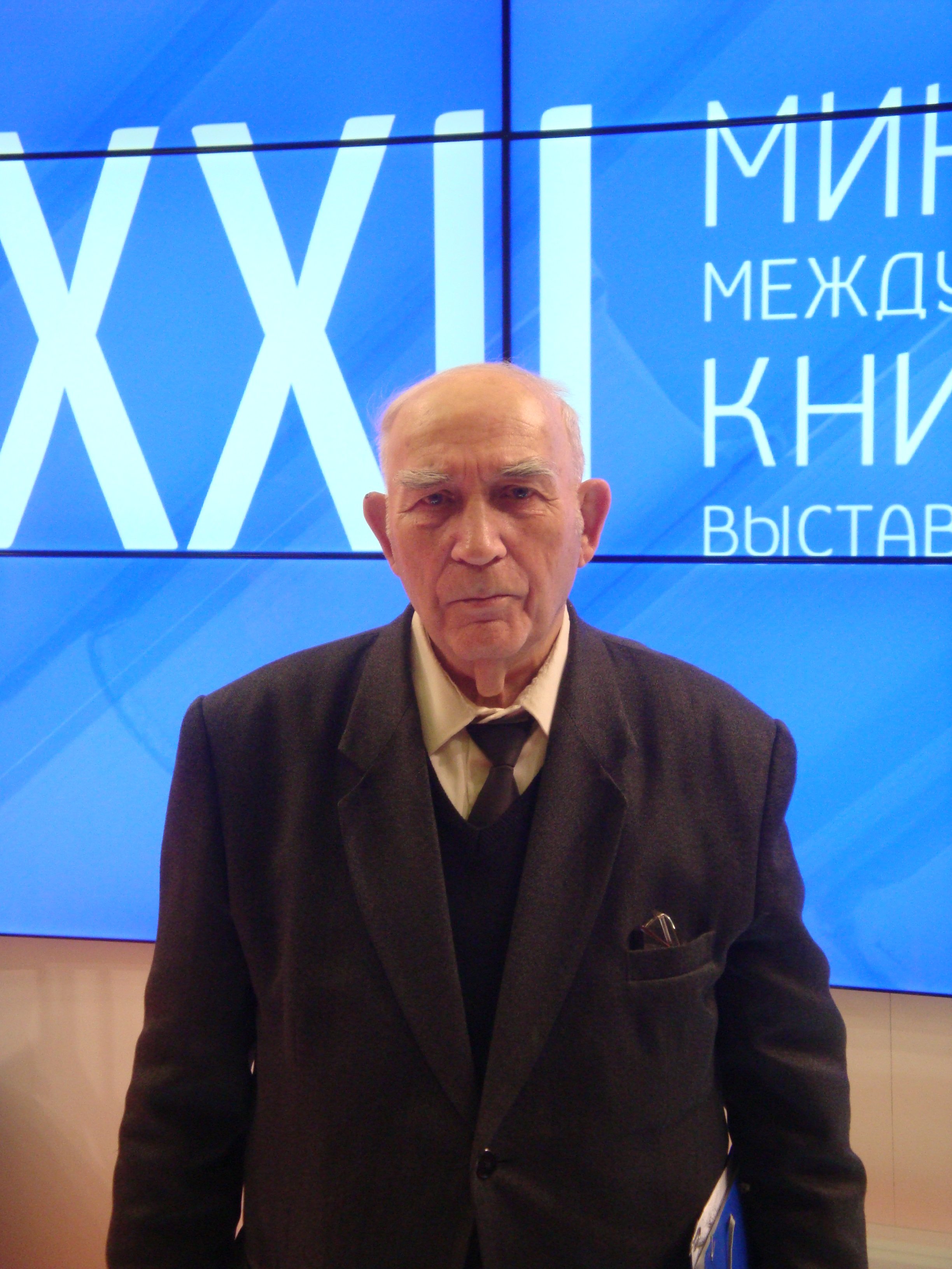 Piotr Fiodaravich Lysenka/Pyotr Fyodorovich Lysenko (born 1931 AD) -- a Belarusian archaeologist, Doctor of History (since 1988), professor (since 1993). His public appearance on XXII International book exhibition in Minsk city (Belarus). 14 February 2015 AD